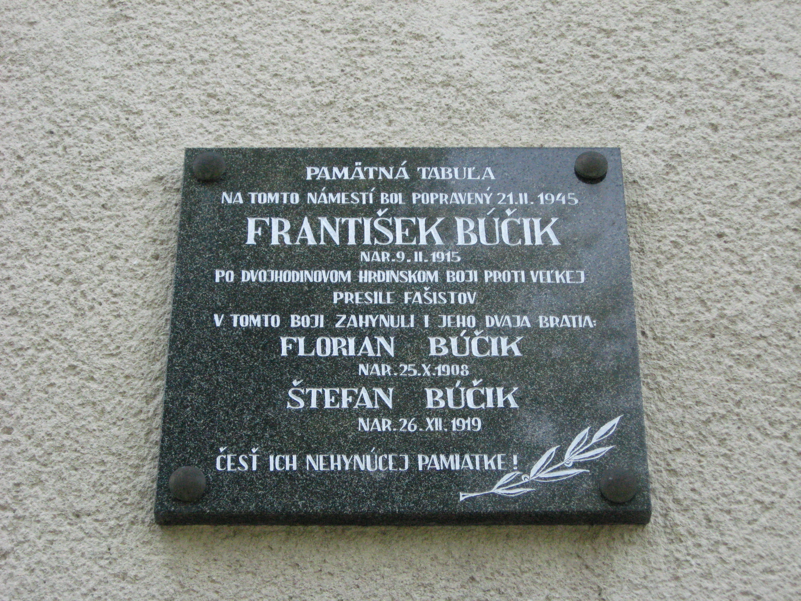 "Memorial plaque In this square was executed on 21st February 1945 František Búčik (born 9th February 1915) after two hour long heroic fight against force of numbers of fascists. In this fight died also his two borthers Florian Búčik (born 25th October 1908) and Štefan Búčik (born 26th December 1919). Honour to their undying memory!"